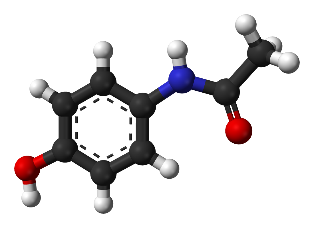 Ball-and-stick model of the paracetamol molecule, C8H9NO2. X-ray crystallographic data from A. Parkin, S. Parsons and C. R. Pulham (December 2002). "Paracetamol monohydrate at 150 K". Acta Cryst. 'E58' (12): o1345-o1347. Image generated in Accelrys DS Visualizer.